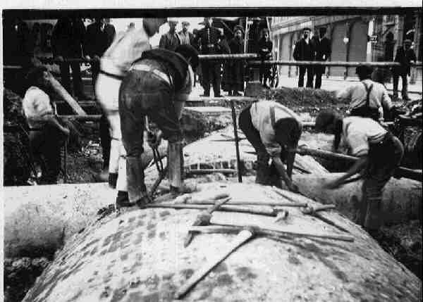 Culverting Hackney brook under Mare Street.[c1900] Phot.from glass plate.[?] Subject: Waterways Location: Mare Street Image No: 3537 Dimensions: 11.5x9cms